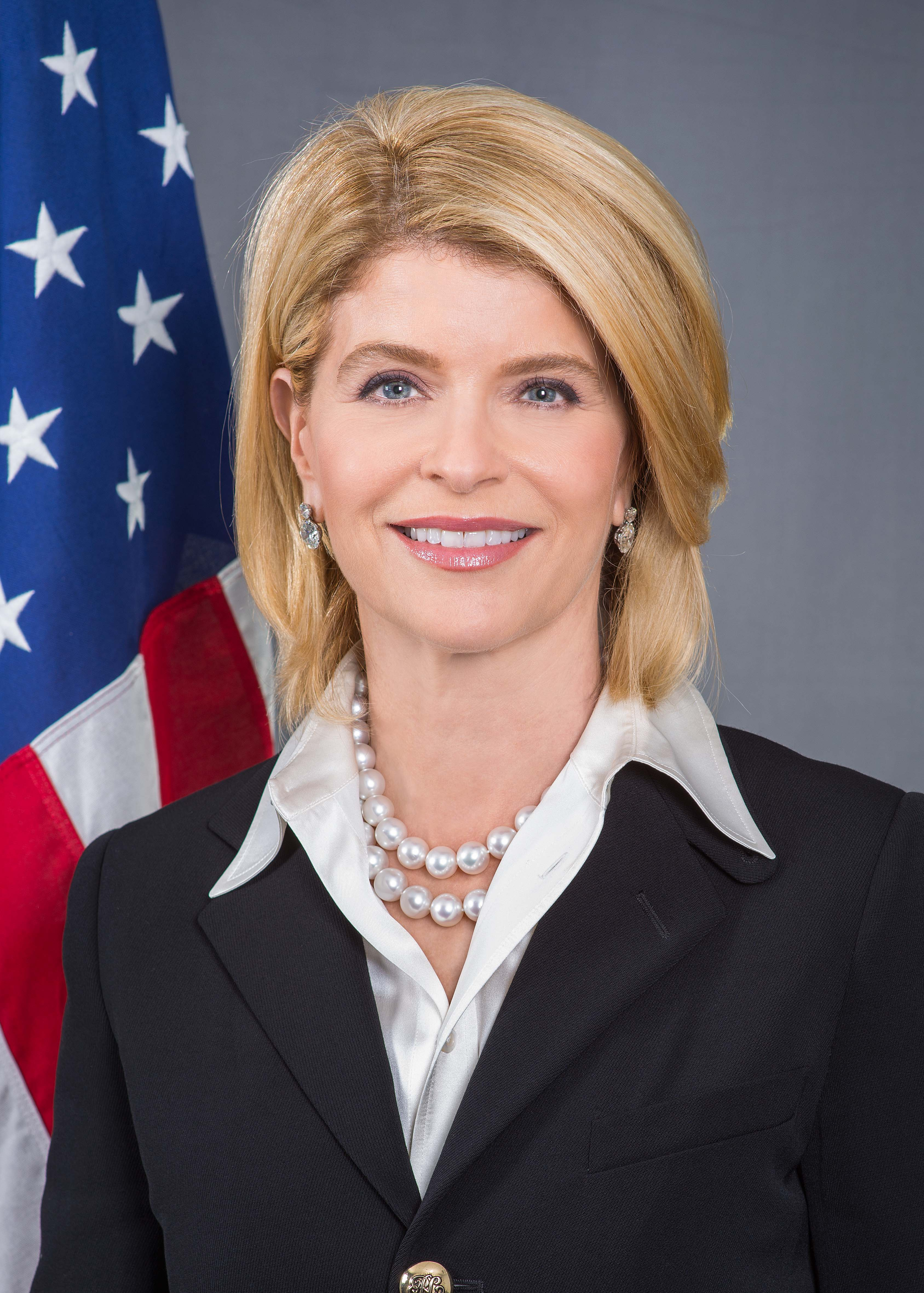 United States Ambassador Carla Sands